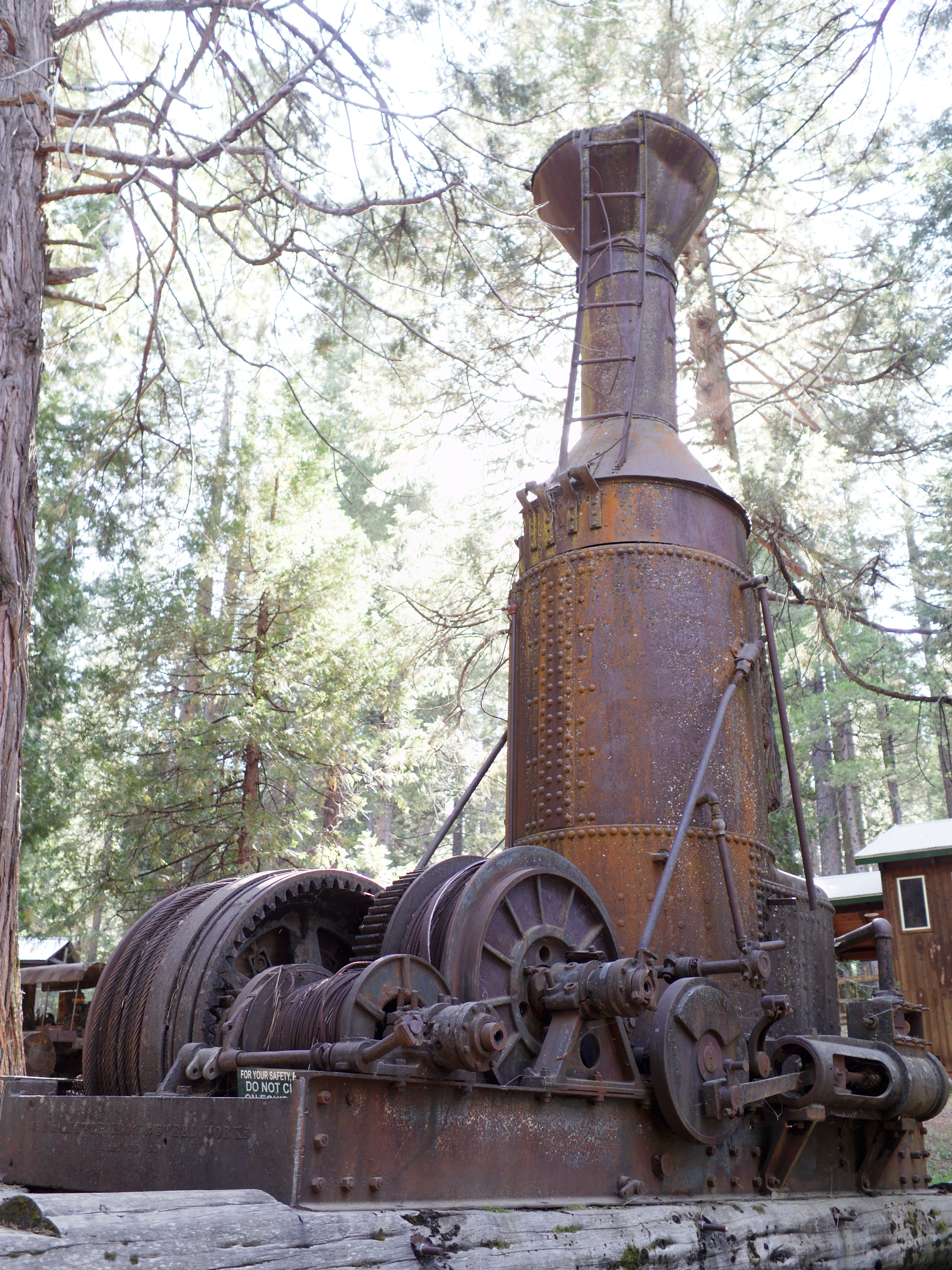 Steam donkey at Sierra Nevada Logging Museum